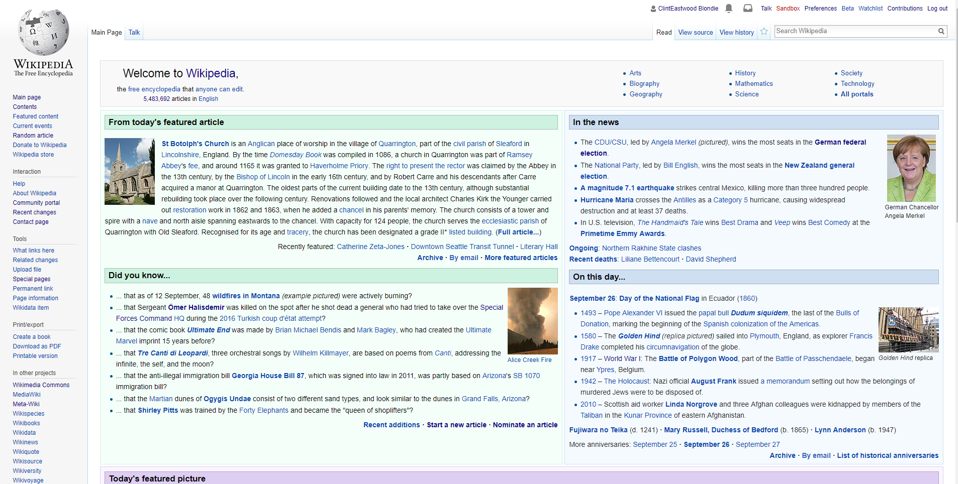 9.27.2017 Wikipedia English Homepage